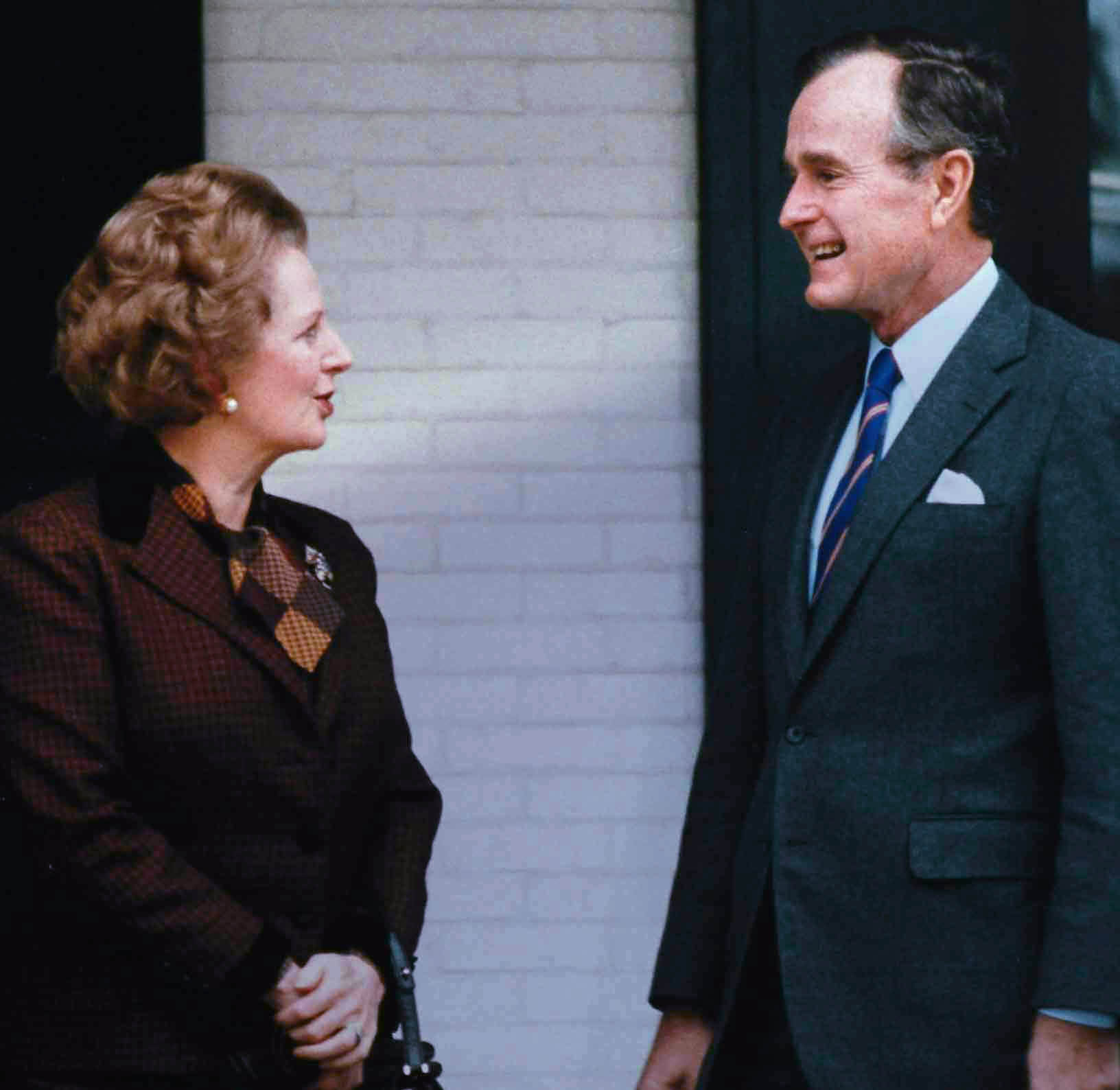 Margaret Thatcher and then-Vice President George H. W. Bush